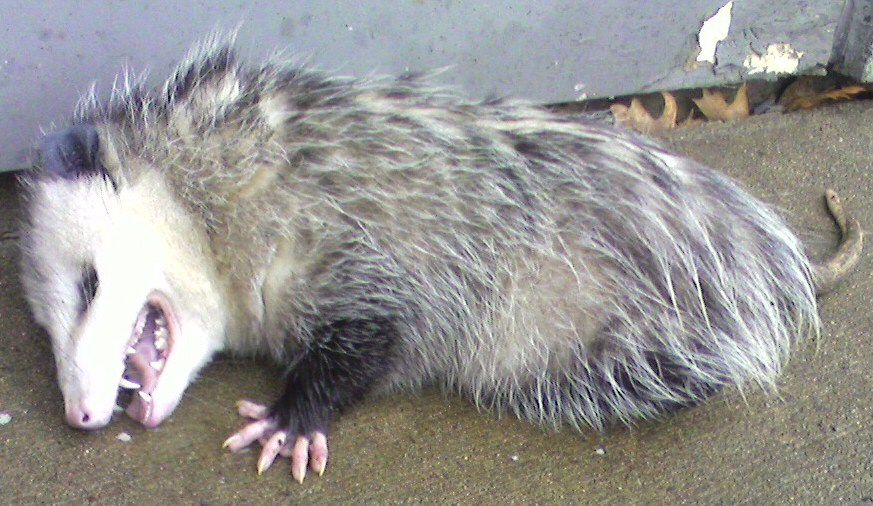 I found this Opossum playing dead on the back porch of my apartment building